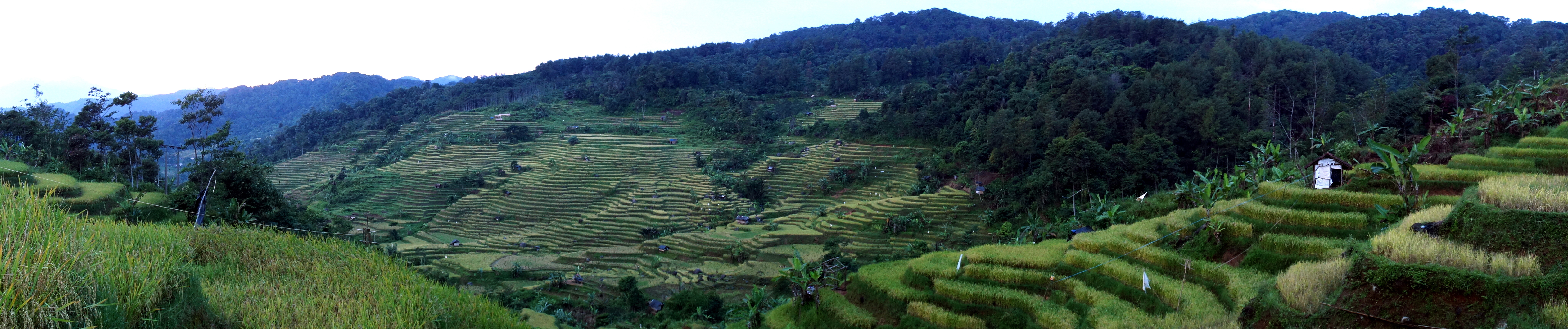 Terasering atau sengkedan merupakan bangunan konservasi tanah dan air secara mekanis yang dibuat untuk memperpendek panjang lereng dan atau memperkecil kemiringan lereng. Keunikan yang mengagumkan buah karya teknologi kearifan lokal yang dikelola secara apik dan rapih dengan sistem tradisional. Teknologi pertanian ini sudah dilakukan sejak ribuan tahun yang lalu di nusantara. di Desa Wisata Malasari, teknologi terasering membentuk pesona keindahan lanskap & perilaku pertanian yang diatur oleh sistem kearifan lokal sumber poto : Ade Zaenal Mutaqin, 0251-969-2000 / 0821-1005-7000